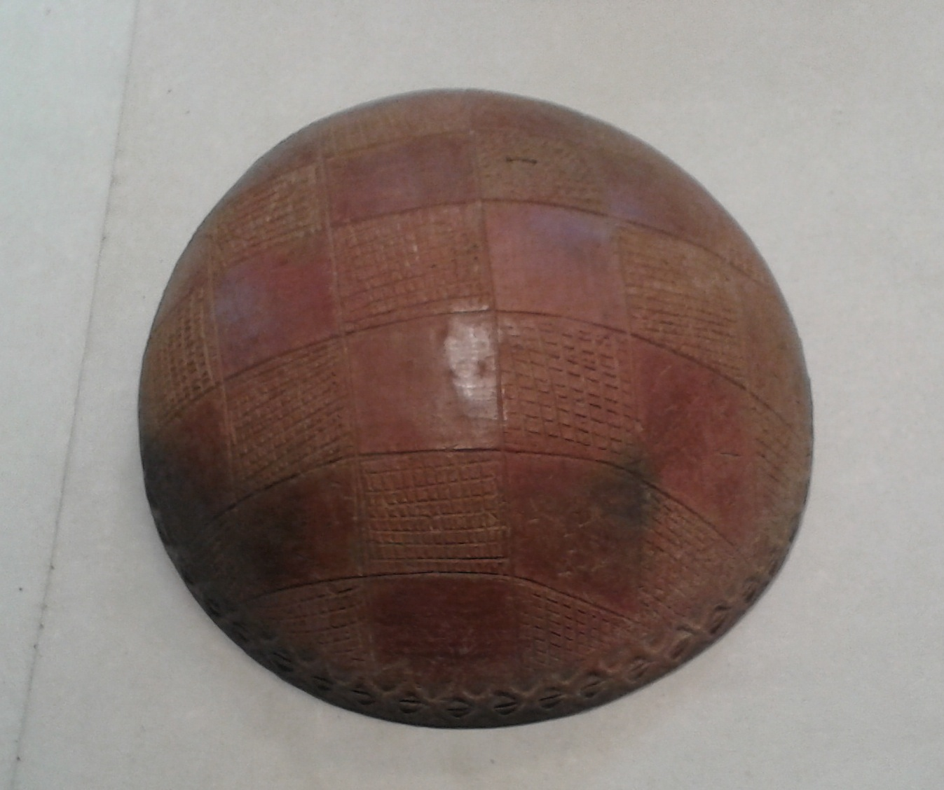 Bowl of the Nubian A-Group culture. Musee du Louvre